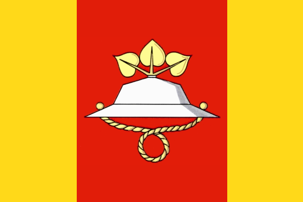 Flag of town Brloh (Pardubice District), Pardubice district, Czech Republic